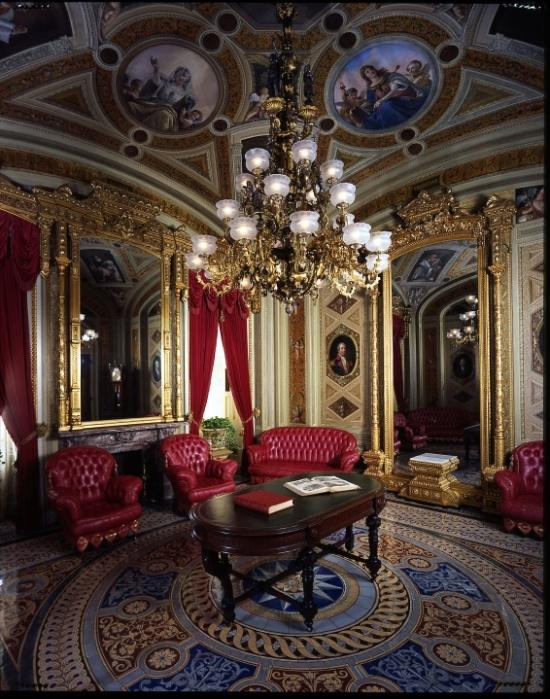 The President's Room in the United States Capitol. This is one of the most ornate rooms in the capitol, decorated with paintings by Constantino Brumidi and completed in 1859-60. In the days when the terms of the President and Congress ended on the same day, the room was often used by the president on March 3/4 to sign last-minute legislation. It has rarely been used since 1921, especially after 1933 when the 20th amendment changed the dates of the terms. It is still sometimes used by both the president and members of Congress for ceremonial purposes.